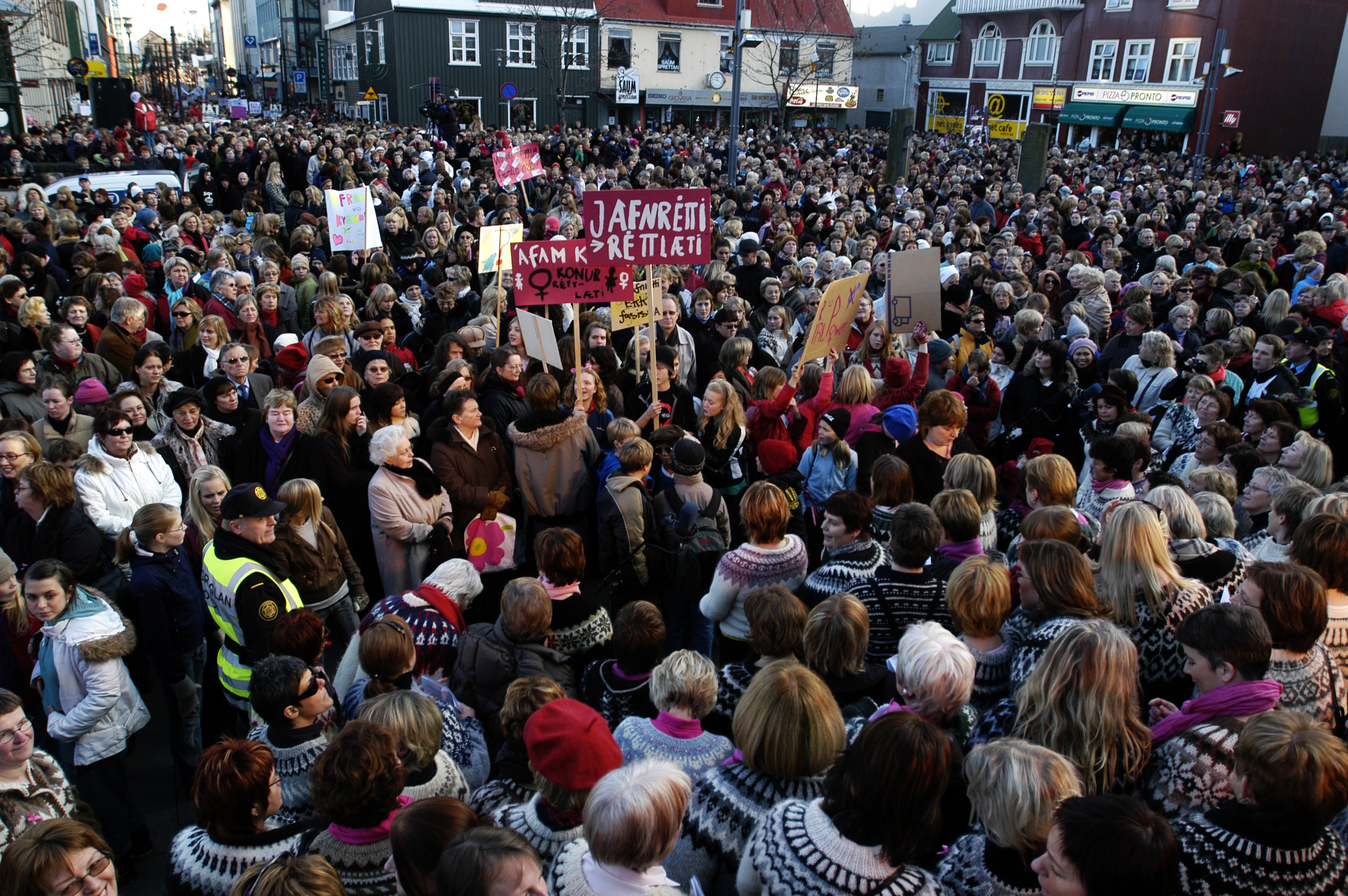 Gender equality, Politics, Freedom of expression, Iceland